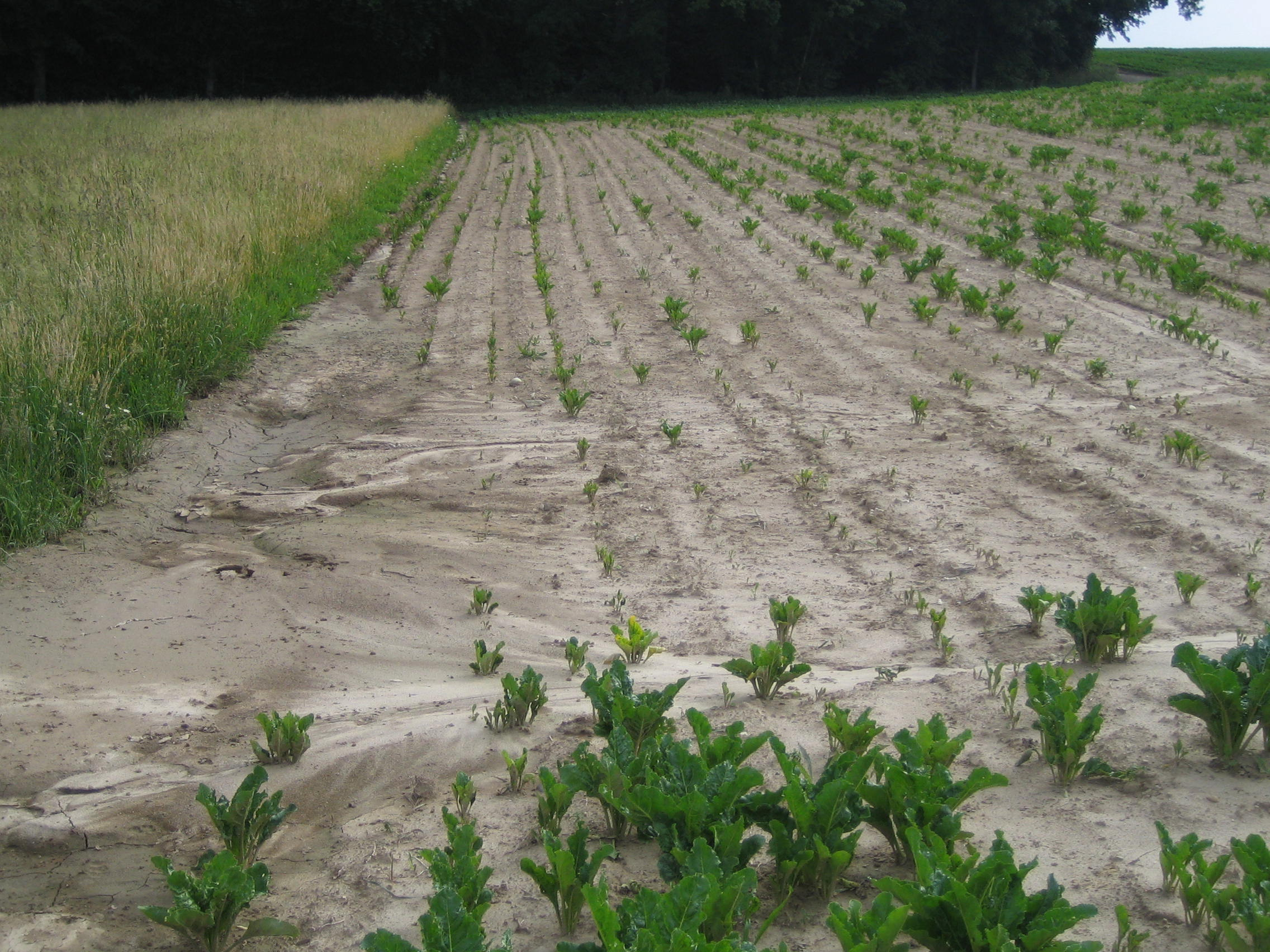 Soil erosion on a sugar beet field, canton of Bern, Switzerland